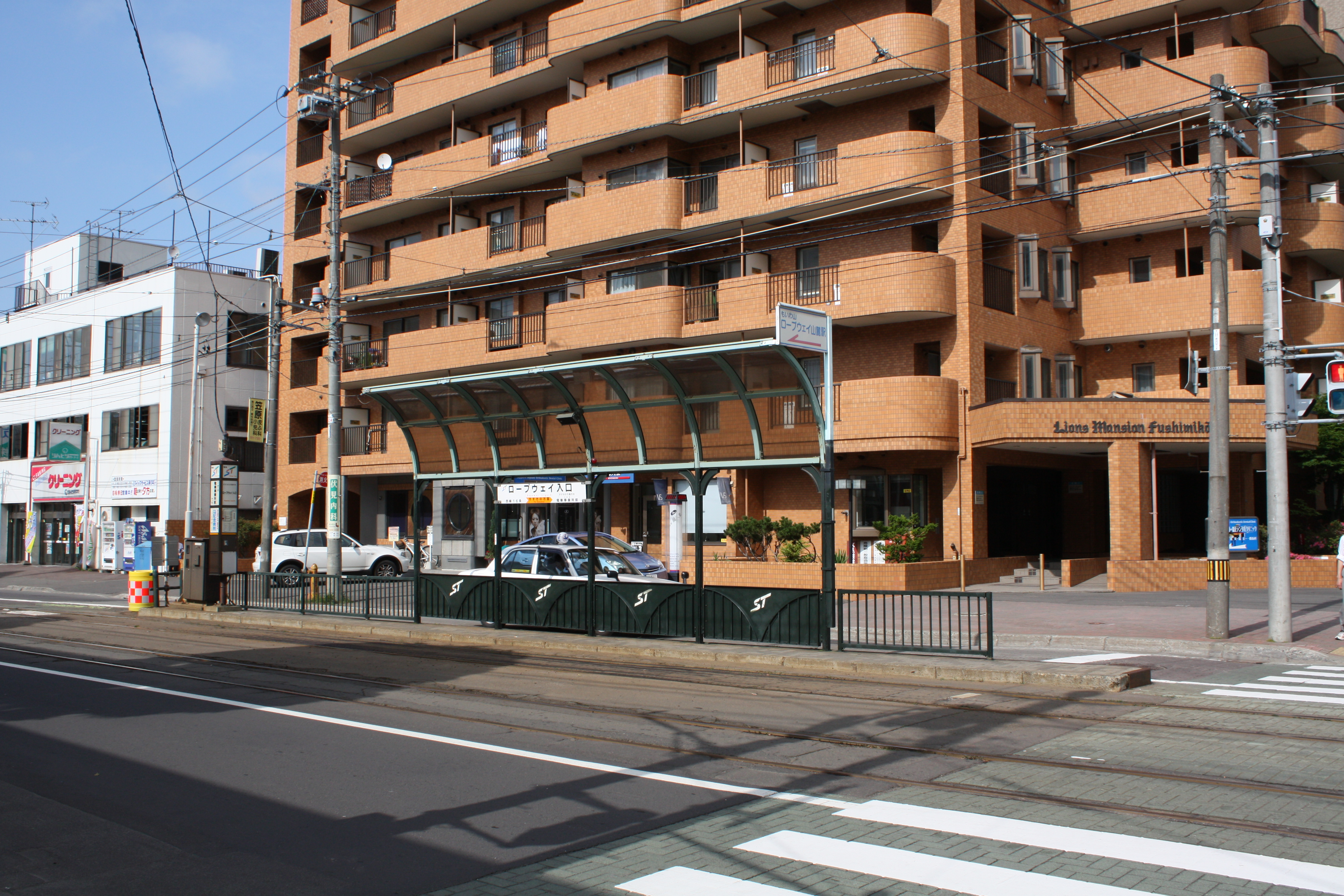 Ropeway iriguchi Station in Sapporo, Hokkaido, Japan. It is the station on the Sapporo Streetcar Yamahana nishi Line operated by Sapporo City Transportation Bureau.